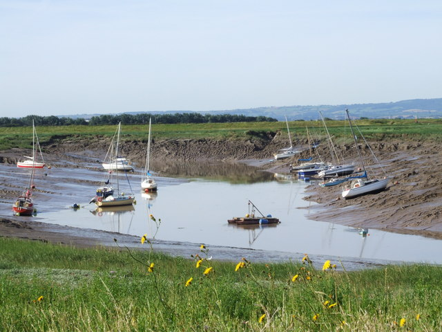 River Brue, Burnham on Sea Boats marooned on the mud banks of the river Brue